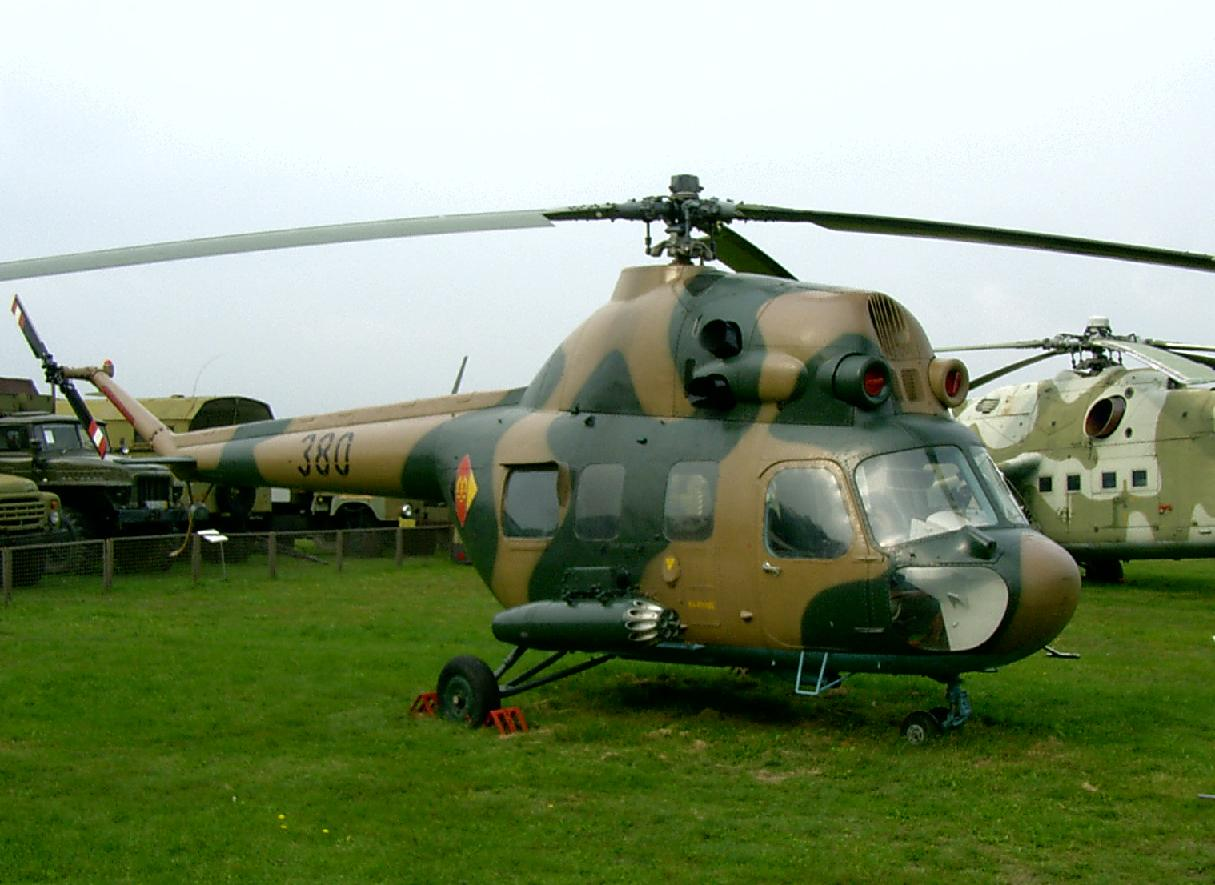 Helicopter Mil Mi-2 (National People's Army).